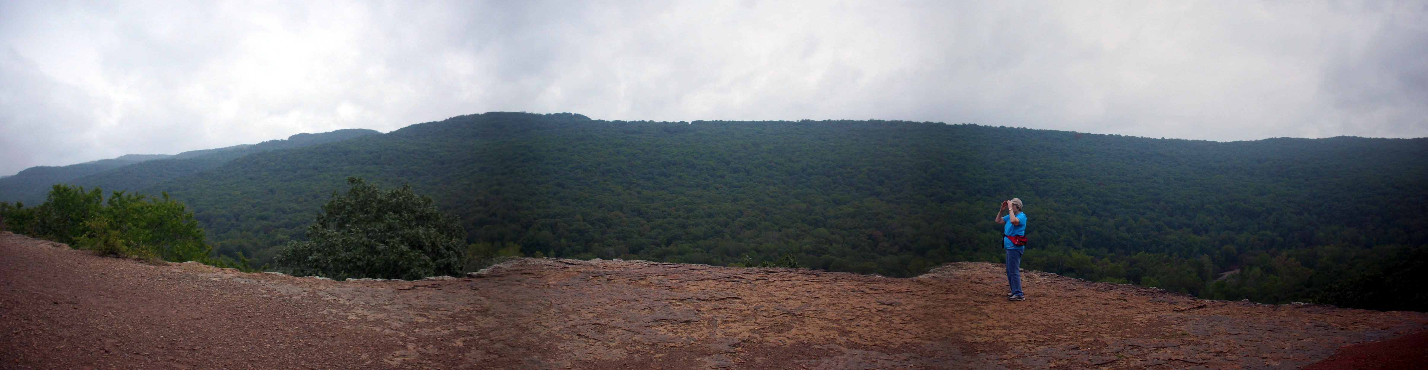 At Devil's Den State Park. This is a three-photo stitch generated by my camera. The person in the foreground is my grandmother.